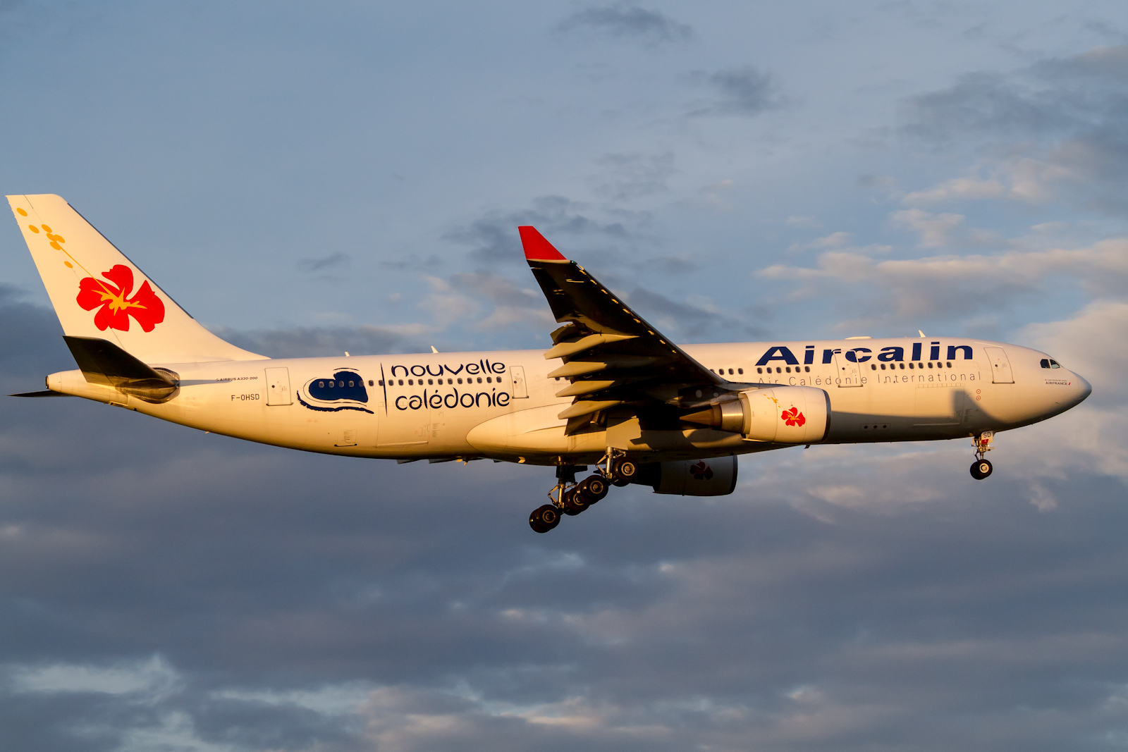 Aircraft: Airbus A330-202 F-OHSD(cn: 507) Airline: Aircalin(Air Caledonie International) - ACI Headquarters: Nouméa, New Caledonia 16/07/2012 Tokyo-Narita Airport(NRT/RJAA), Japan